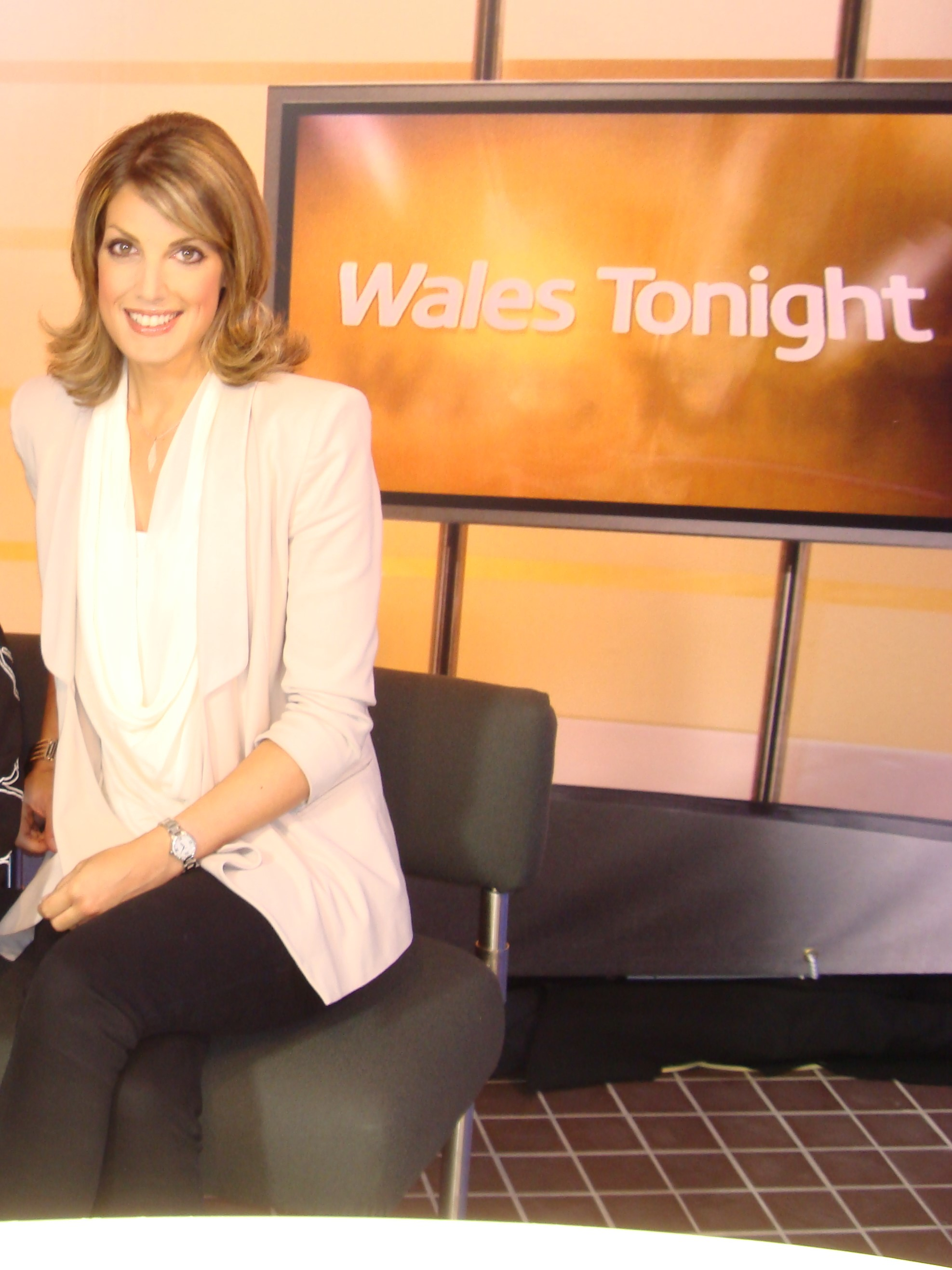 Andrea Byrne (née Benfield)